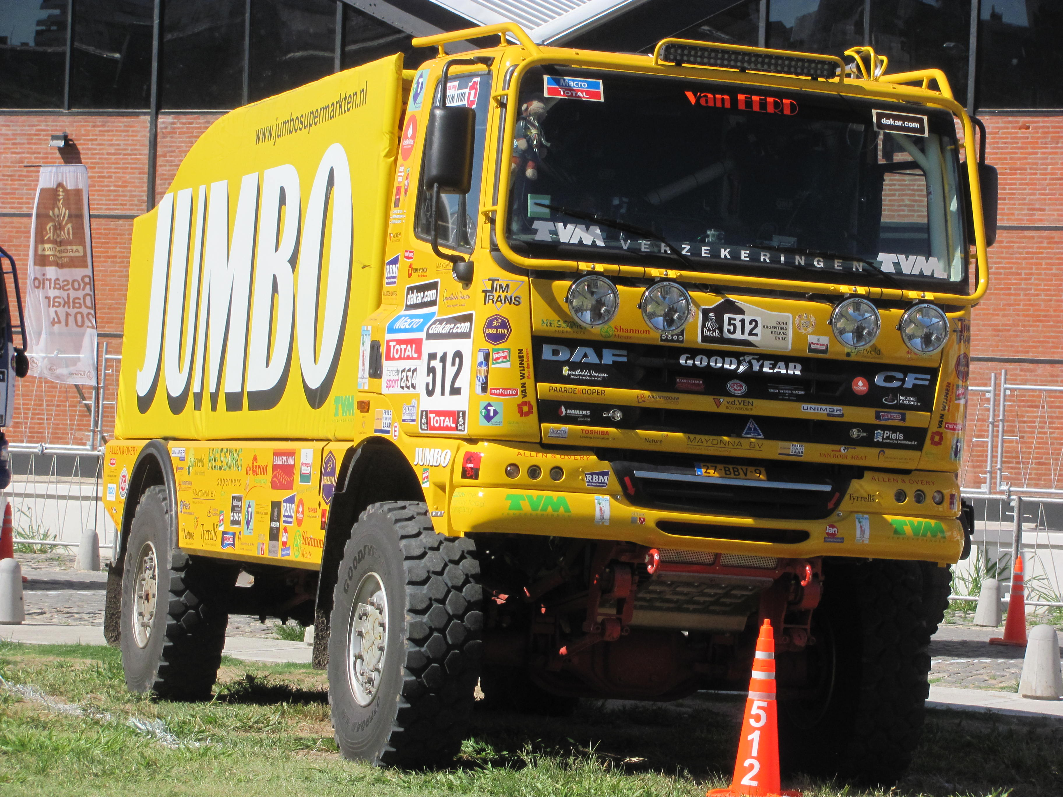 2014 Dakar Rally trucks before the start of the event